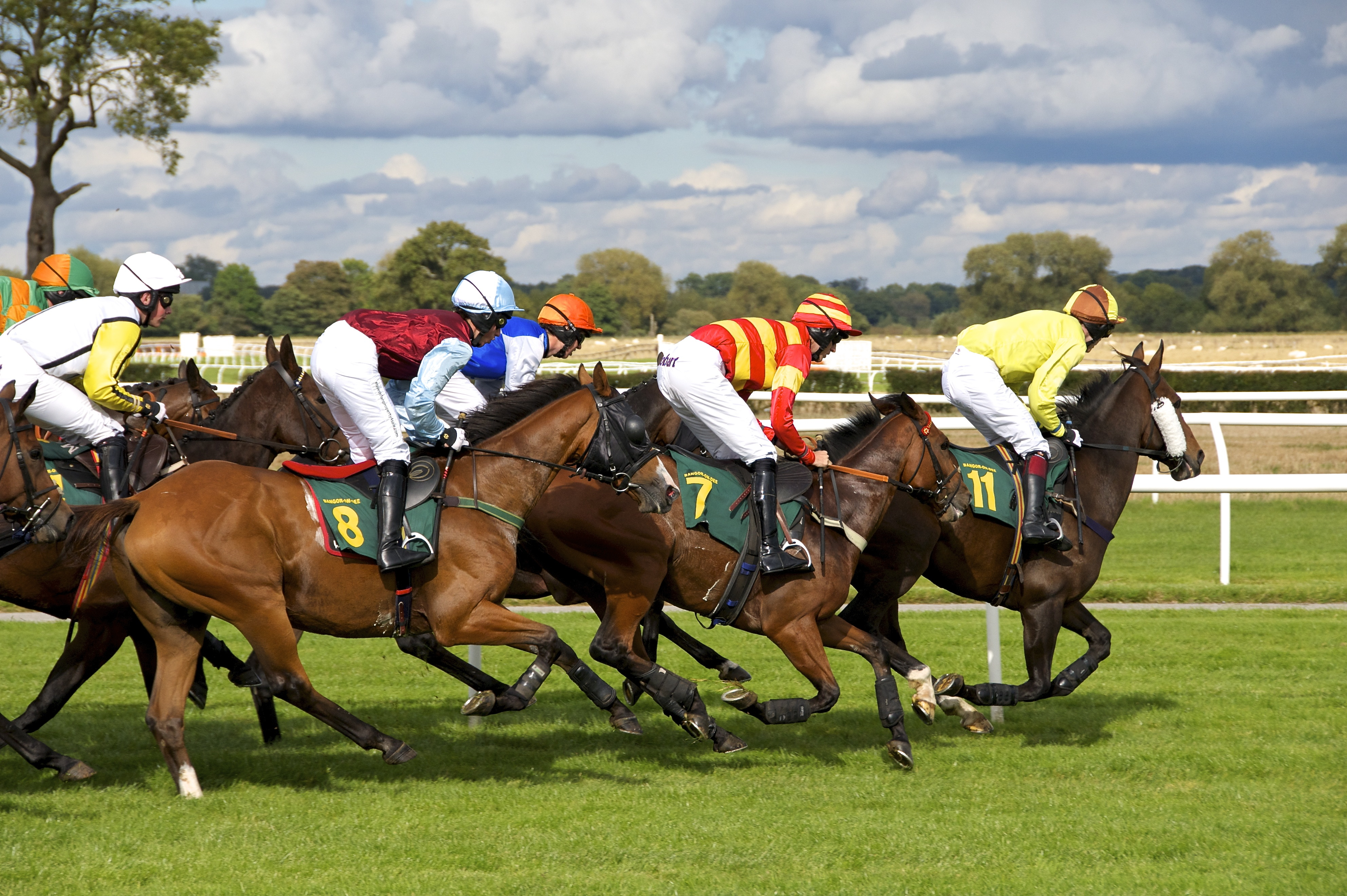 Copyright free horse racing photo - Used on free bet